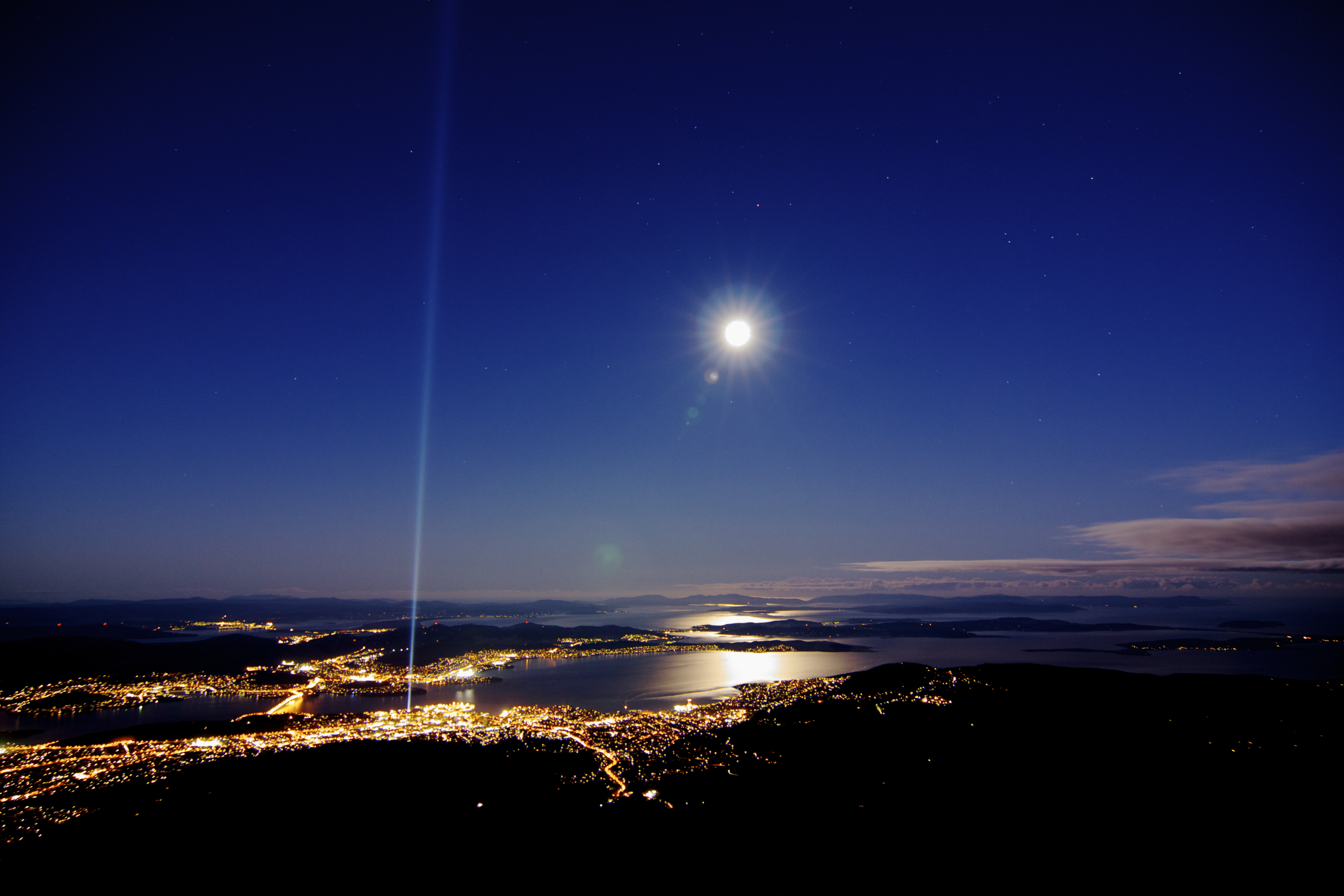 Dark Mofo's giant beam of light pierces the Hobart Skyline, on the night after winter solstice, 2013 -- the night of a full moon. 22 June, 2013.